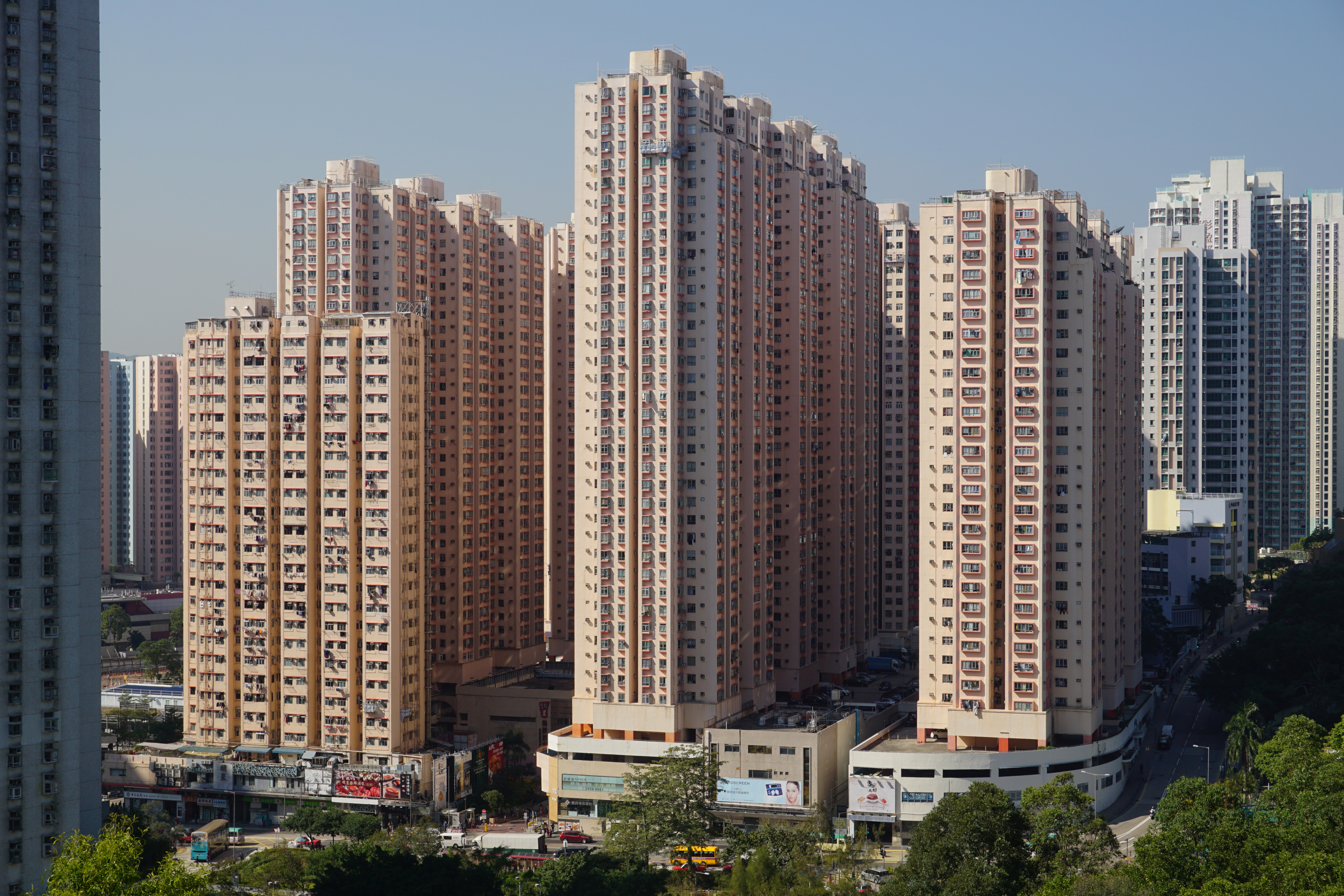 Amoy Gardens in Kowloon Bay, Hong Kong.